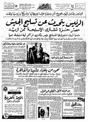 Al-Ahram Newspaper During Suez Crisis 01-10-1955